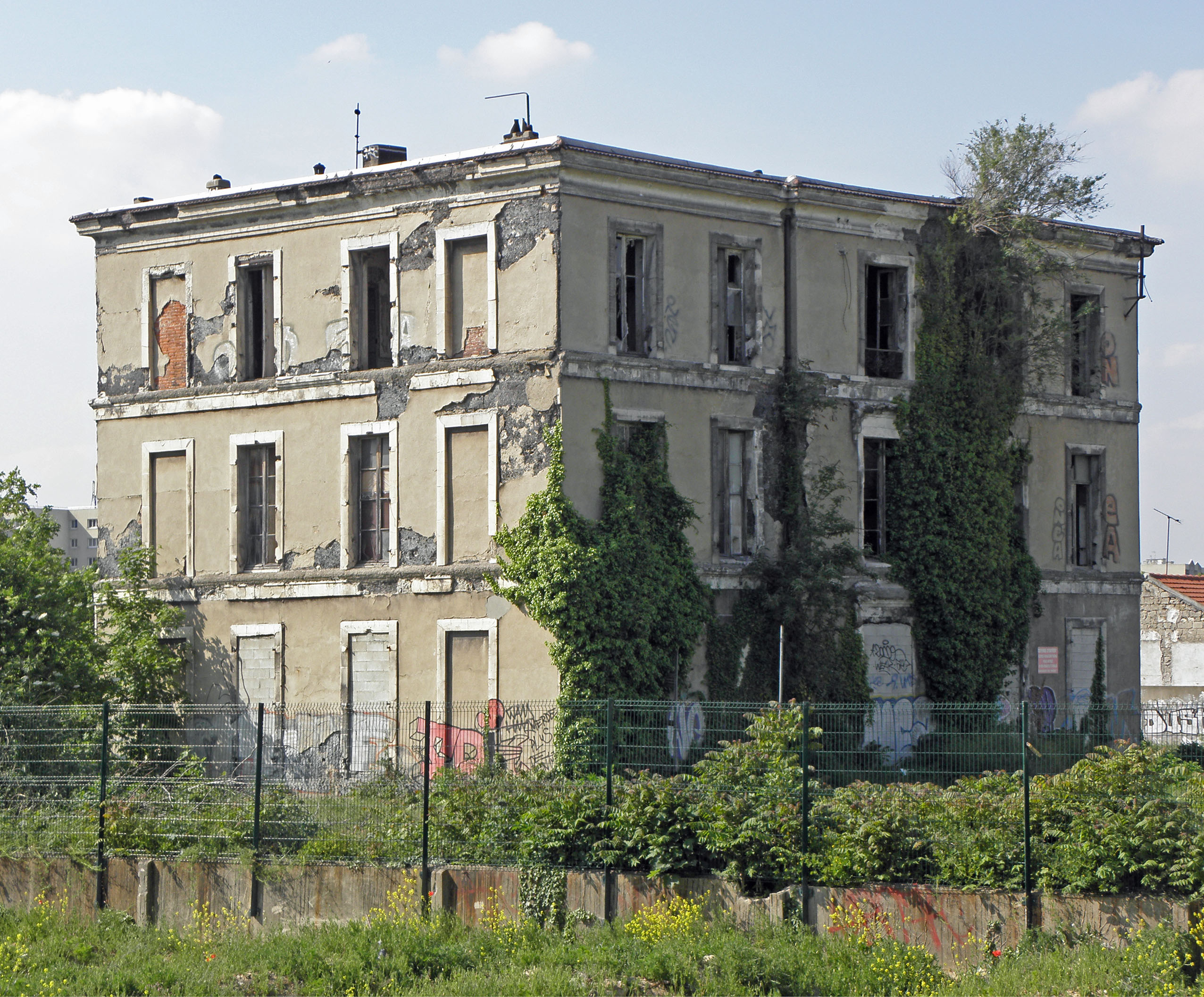 Francois Coignet house. First house in reinforced concrete, built in 1853. Historic monument since 1998. In a state of slow deterioration due to lack of maintenance.